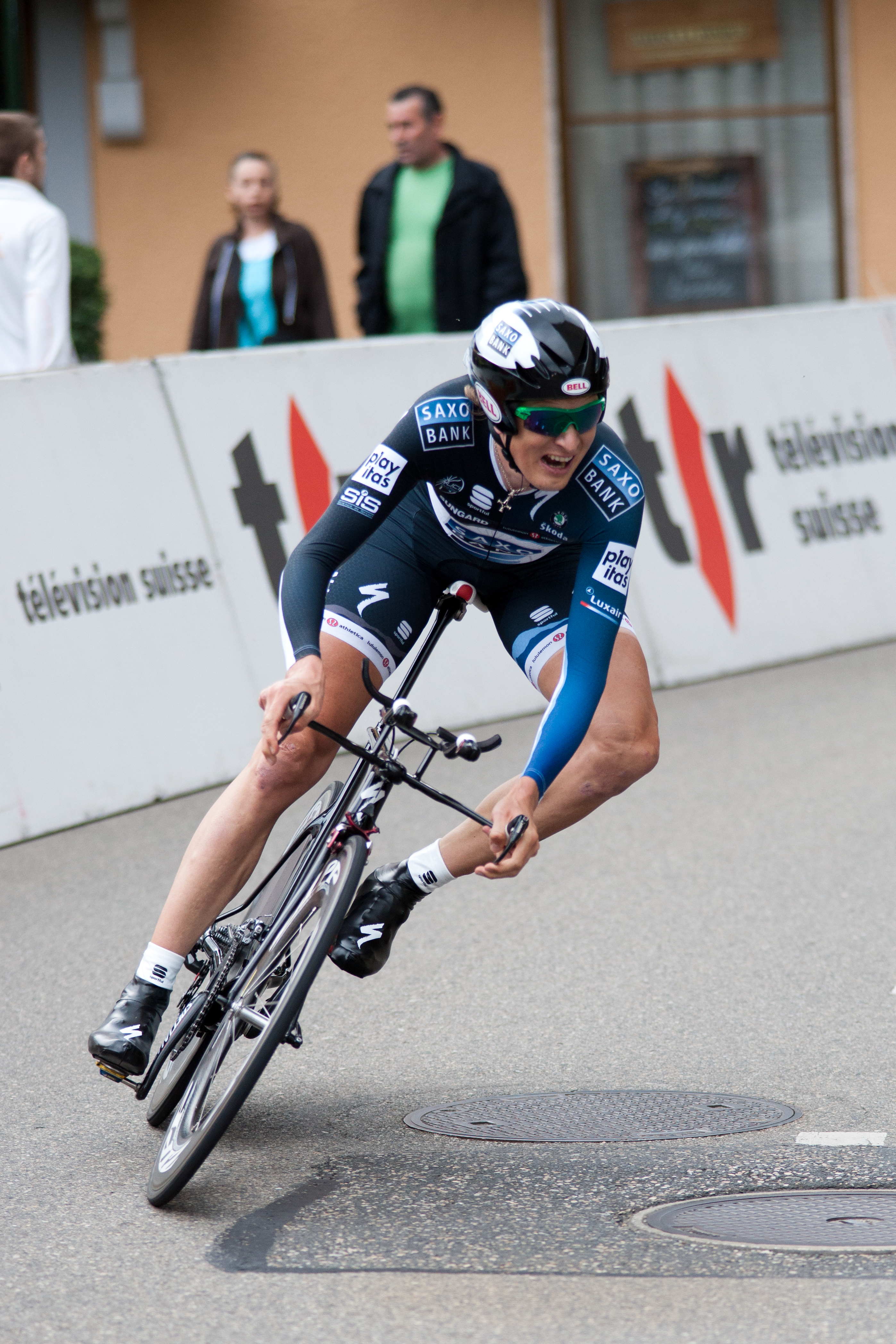 Gustav Larsson during the 3rs stage of the Tour de Romandie 2010.